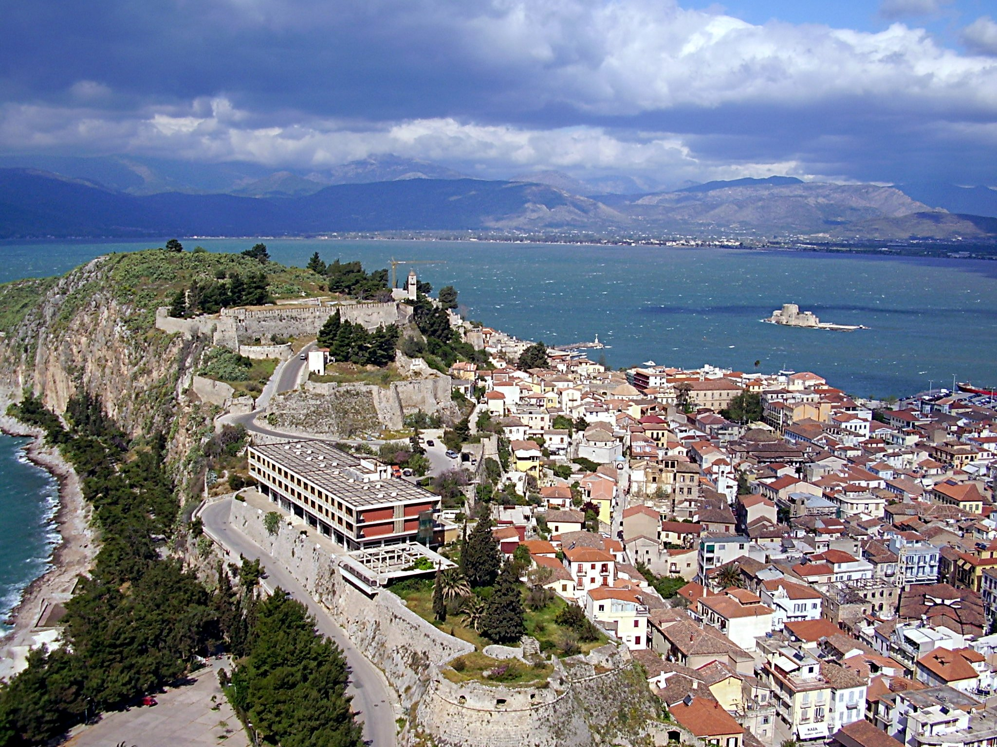 Akronafplia viewed from Palamidi, Nafplion, Greece Photo was taken using the following technique: Body: Olympus C-370 Zoom